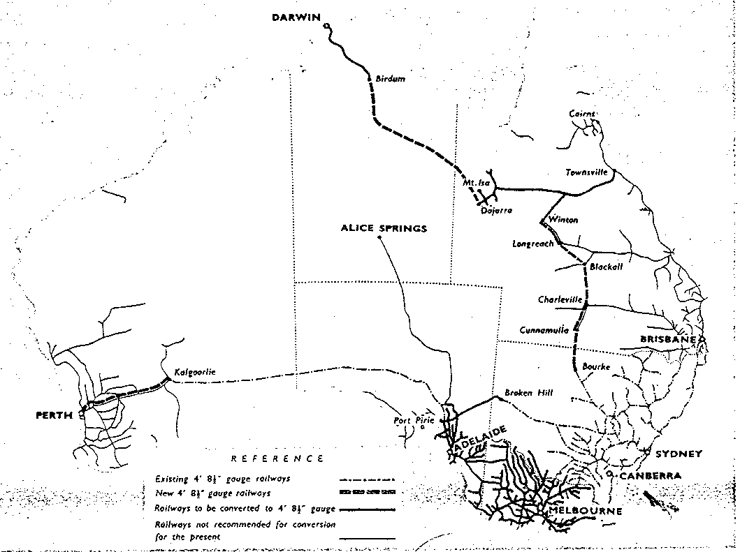 Diagram from the report into the Standardisation of Australia's rail gauges was completed by former Victorian Railways Chief Commissioner Sir Harold Winthrop Clapp in March 1945.